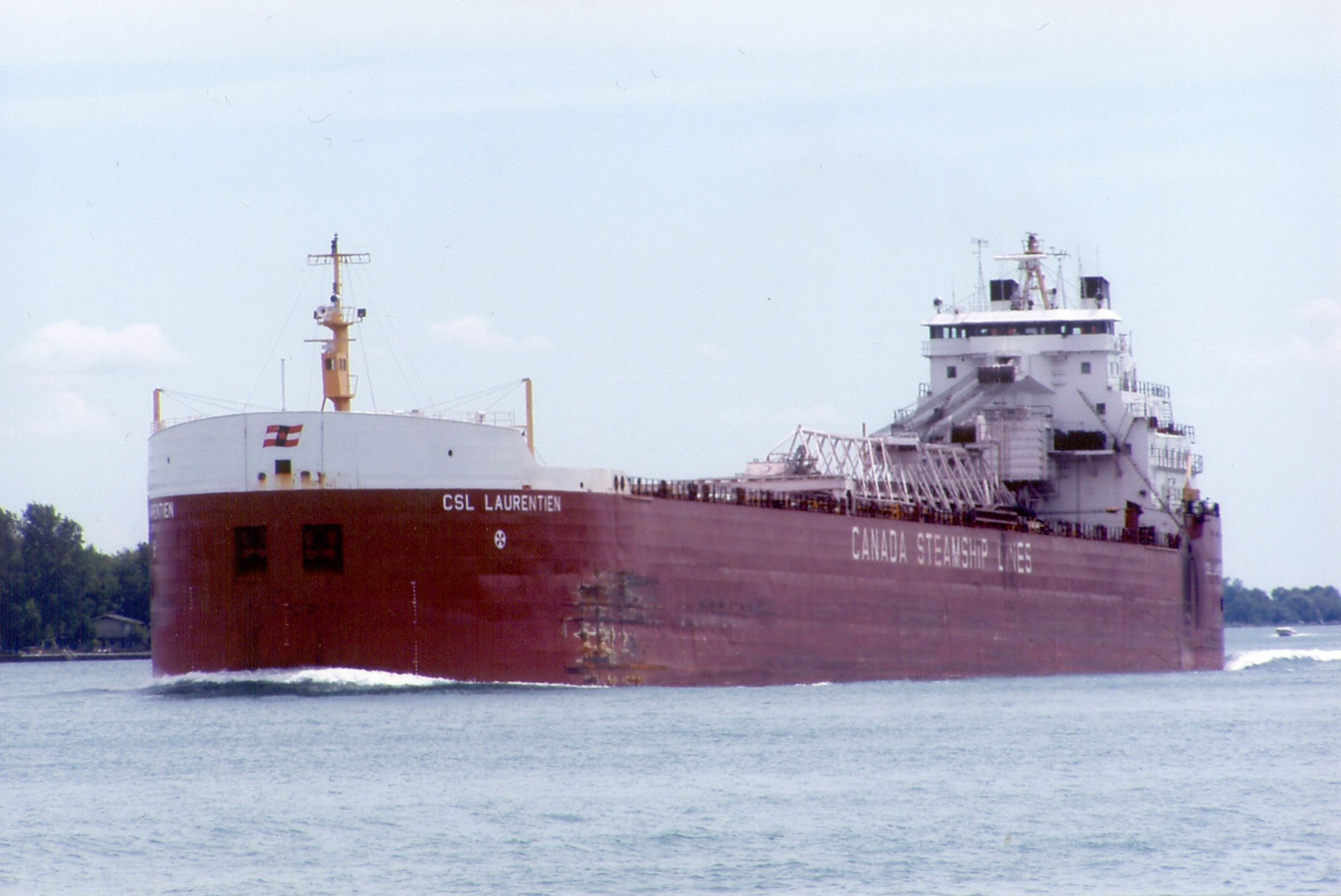 Canada Steamship Lines Laurentien, upbound through the St.Clair River Built by Collingwood Shipyards, Collingwood, ON side launched July 8, 1977 for Canada Steamship Lines Ltd., Montreal First name: Louis R. Desmarais IMO: 7423108 MMSI: 316001637 Call sign: VCJW Length: 225 m / 739'10" Width: 24 m / 78'00" Depth: 48'05" Capacity (tons): 37,797 powered by 2 Pielstick V-10 cylinder 4,500 horsepower diesel engines feeding through a single reduction gear box to a controllable pitch propeller giving a rated service speed of 14 knots and equipped with a bow thruster. Engine room fire on Nov. 27, 1999 on western Lake Ontario when a hydraulic oil line broke spraying oil over the engines. Winter 2000-2001 converted by Port Weller Dry Docks to a SeawayMax-sized vessel by new forebody fitted to the engine-room. The new vessel features automated self-unloading equipment. March 3, 2001 christening the new vessel, new name CSL Laurentien. The sponsor of Hull 79 at the christening was Mrs. Kimberley Pauley, wife of Capt. Steve Pauley, of Mates Corner, NB. 03/09/2001 Grounding/Stranding with structural damage, between Duluth (USA) and Port Weller (Canada)